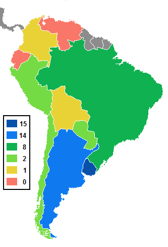 Copa America Championships